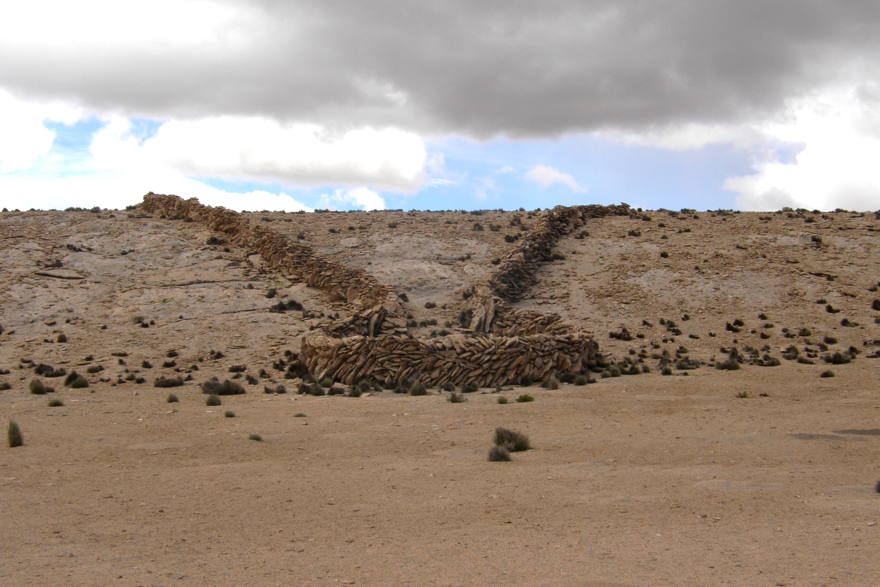 Lauca National Park : The chacu "las Cuevas". A chacu is a trap (and also the hunting name) to capture vicuñas, guanaco, etc. ; This one is from the XVI century. Municipality of Putre, Parinacota province, region XVI, Chile, .